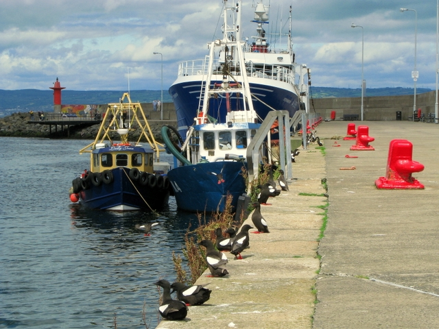 Black Guillemots, Bangor [9] More of the black guillemots on the Eisenhower Pier in Bangor. When this was taken I counted in excess of 30 in and around the pier. See 3092067 for some related Geograph images.